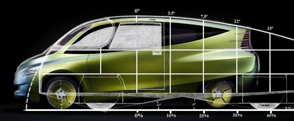 Comparison of the car body shape to an ideal streamlined half-body.